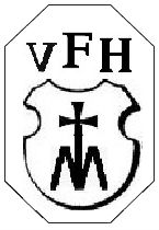 Seal of Wasil Hodyka-Kobyzewicz (circa 1550-1616), Lithuanian boyar, later treasurer of Kiev Powiat, displaying Kobyzewicz family's arms. 2nd half of the 1500s. The letters stand for 'Vasily Fyodorovich Hodyka'. The original seal is made from silver and stored at Sheremetiev Museum, Kiev.